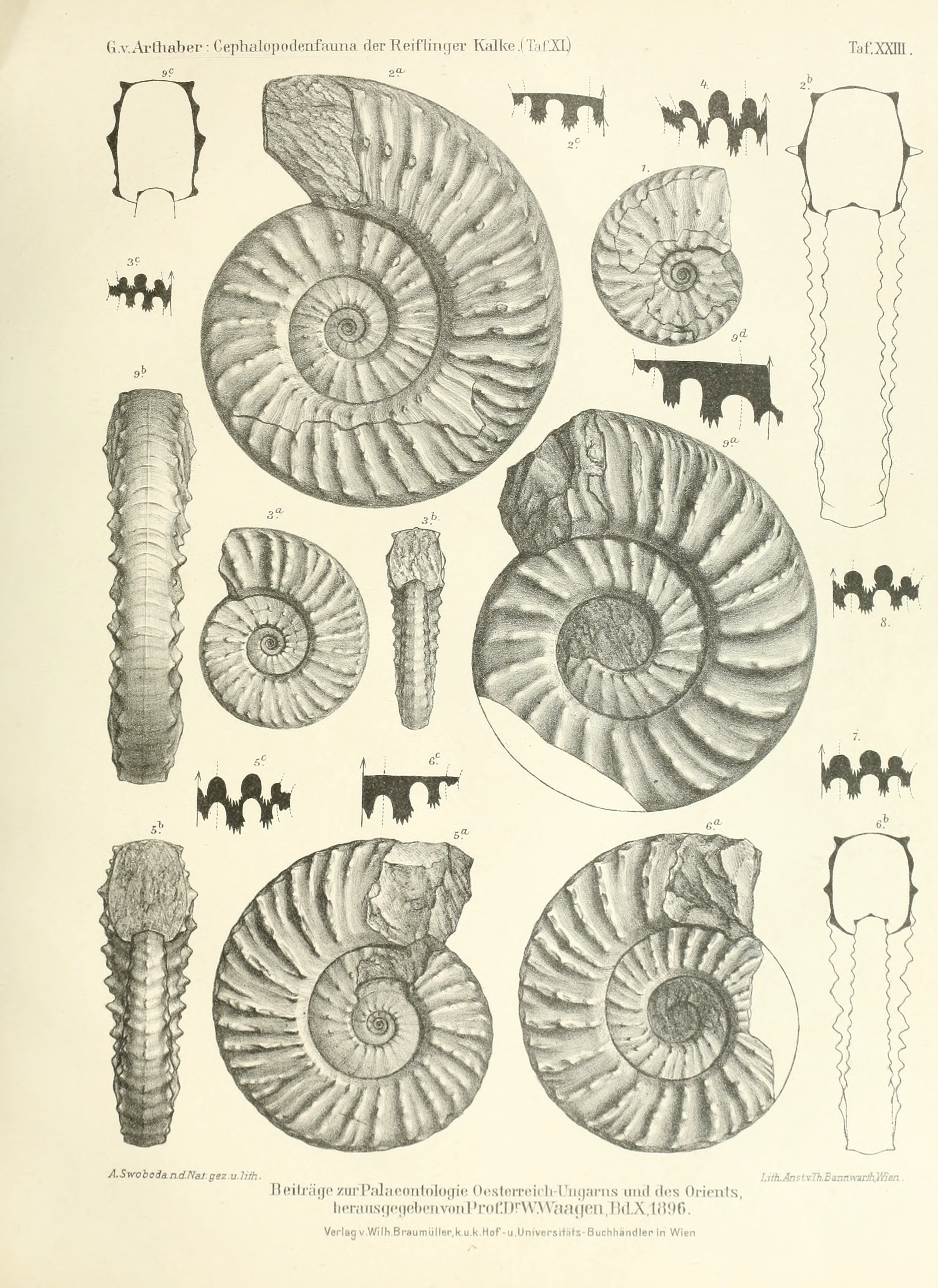 Table 23, Ceratites, Balatonites: Fig. 1. Ceratites binodosus Hauer, Fig. 2 a–c. Balatonites egregius Arth., Fig. 3 a–c. Balatonites egregius Arth., Fig. 4. Balatonites egregius Arth. var., Fig. 5 a–c. Balatonites egregius Arth. var. mirus, Fig. 6 a–c. Balatonites armiger Arth., Fig. 7. Balatonites armiger Arth., Fig. 8. Balatonites armiger Arth., Fig. 9. Balatonites diffissus Arth.